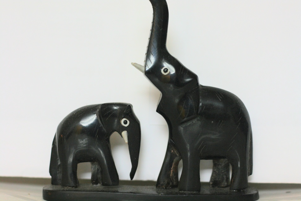 Cow horn sculpture: Elephants - Art From Cuttack, Orissa